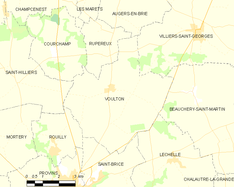 Map of French municipality Voulton